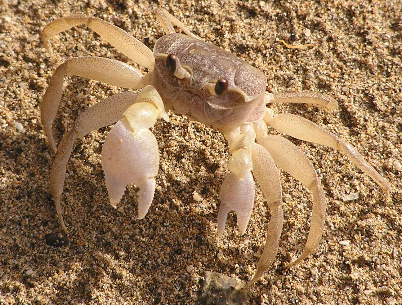 Crab at Batemans Bay, New South Wales, Australia. Probably Ocypode cordimanus: Common Ghost Crab or Smooth-handed Ghost Crab. Characteristics include one claw being much larger than the other. See also: File:BBayCrab2.jpg